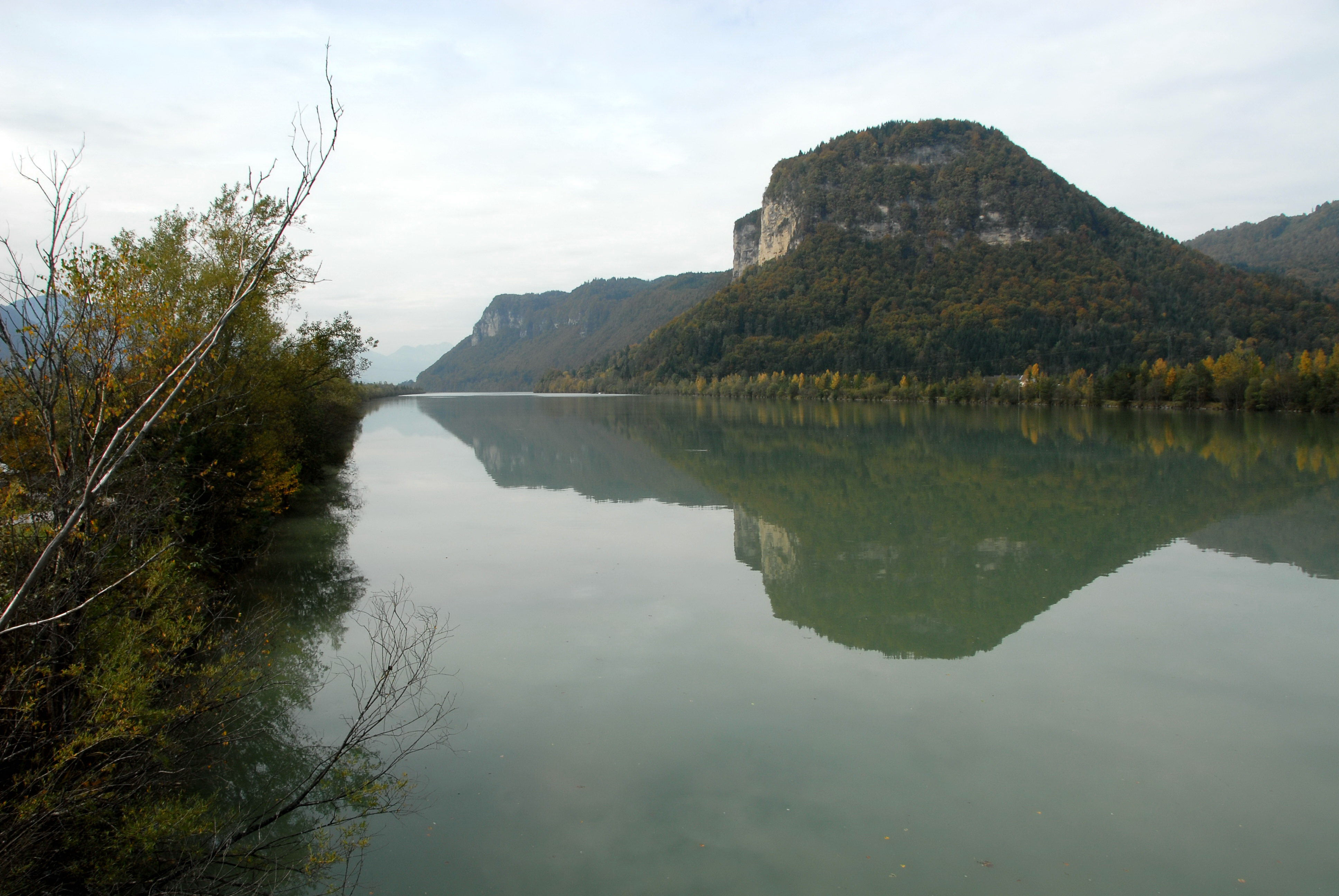 Reservoir of the river Drau near Rottenstein in the community Ebenthal, Carinthia, Austria. The hill on the right of the picture is a 719 m high nameless hill belonging to the Lavanttal Alps, west of the hamlet of Kokarnig.